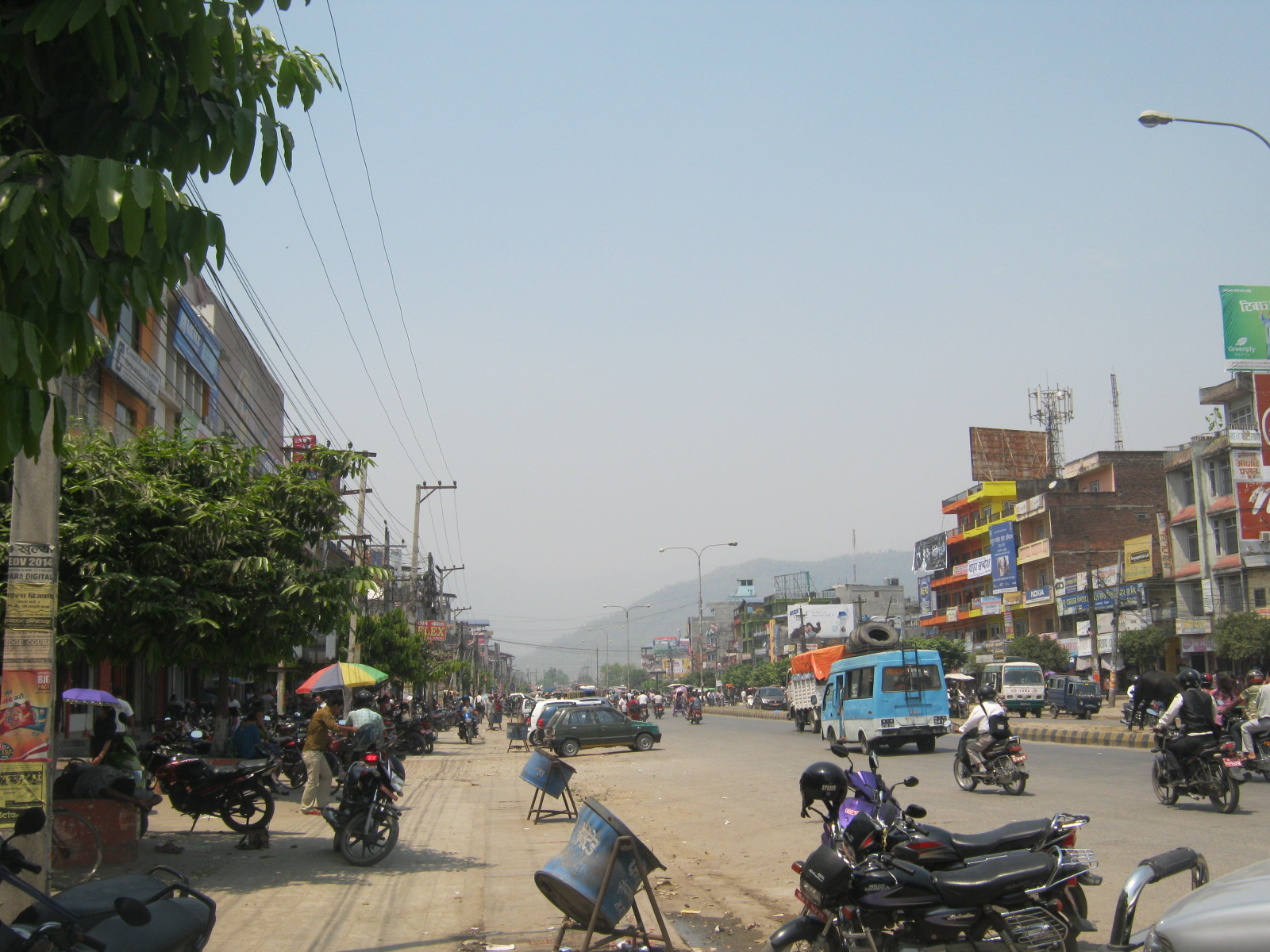 Narayanghat city in Chitwan district of Nepal.